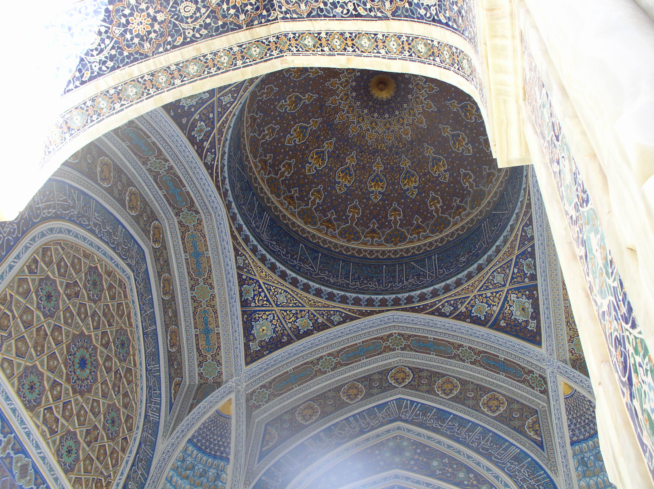 Dome of the mausoleum erected over Muhammad al-Bukhari's grave. Samarkand viloyat, Uzbekistan